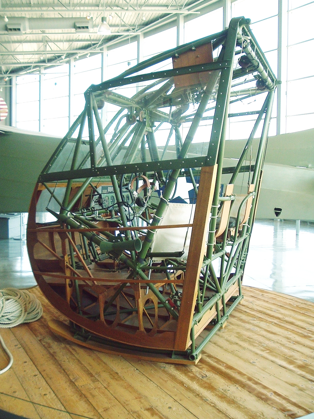 Wako CG-4A cockpit framework